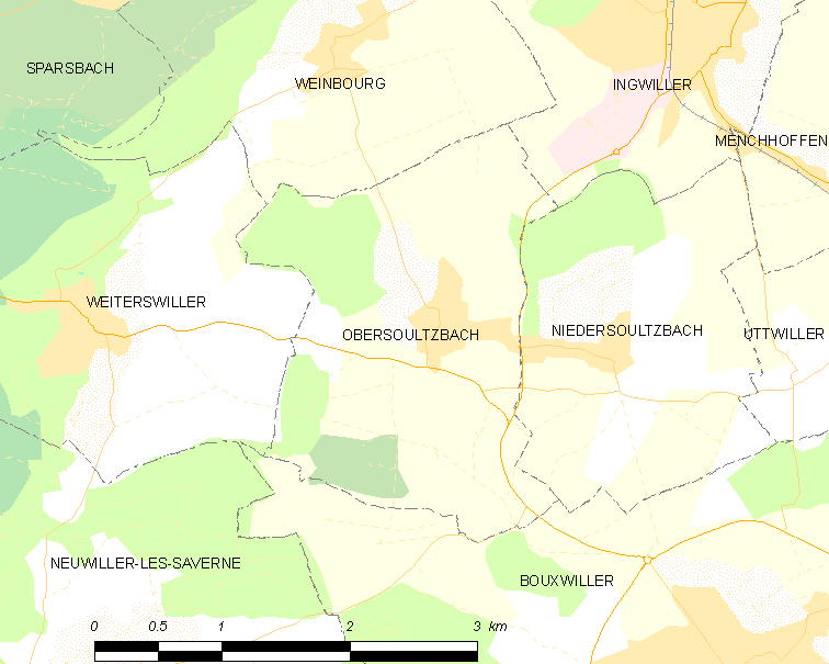 Map of French municipality